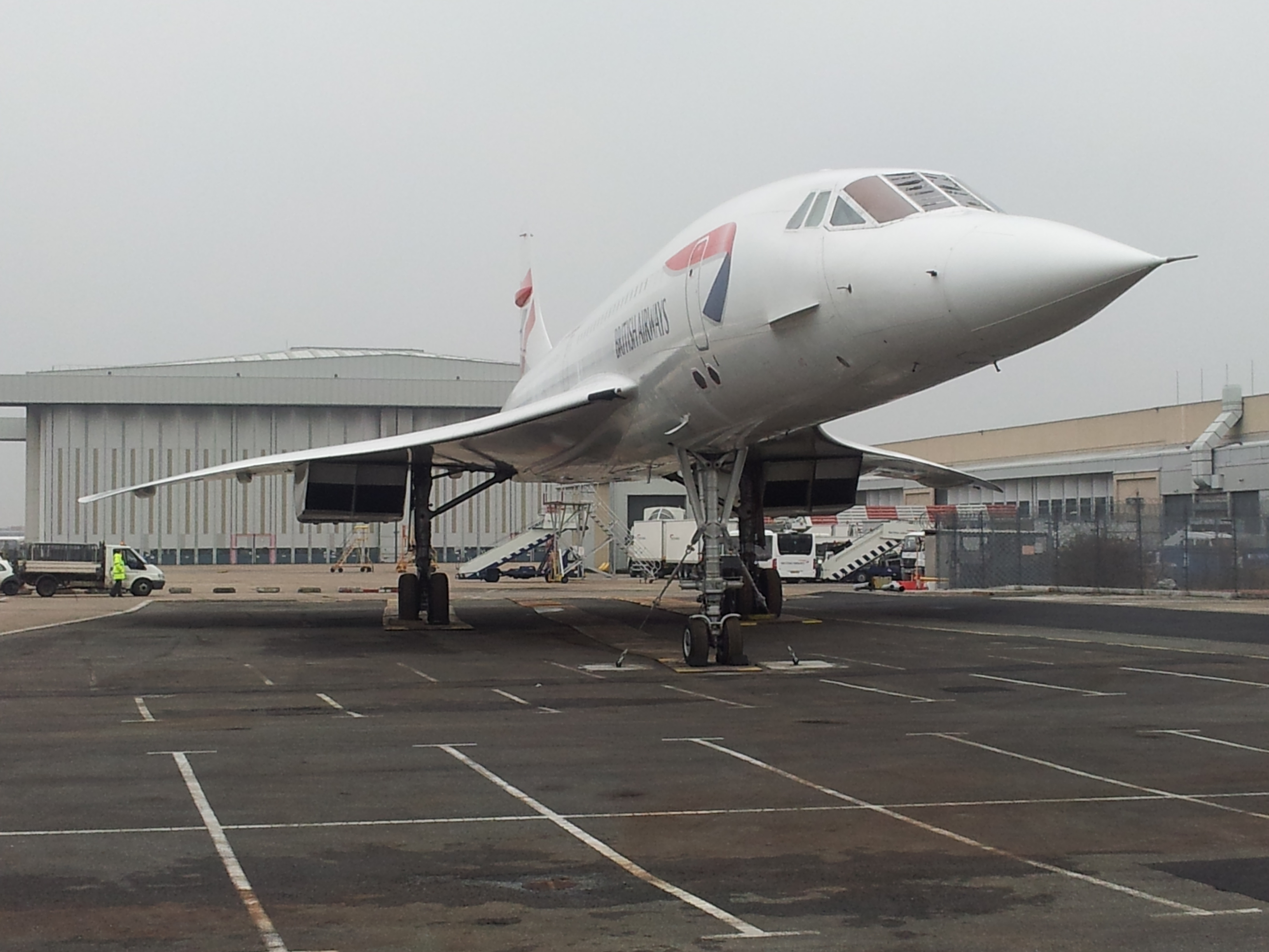 G-BOAB in new home